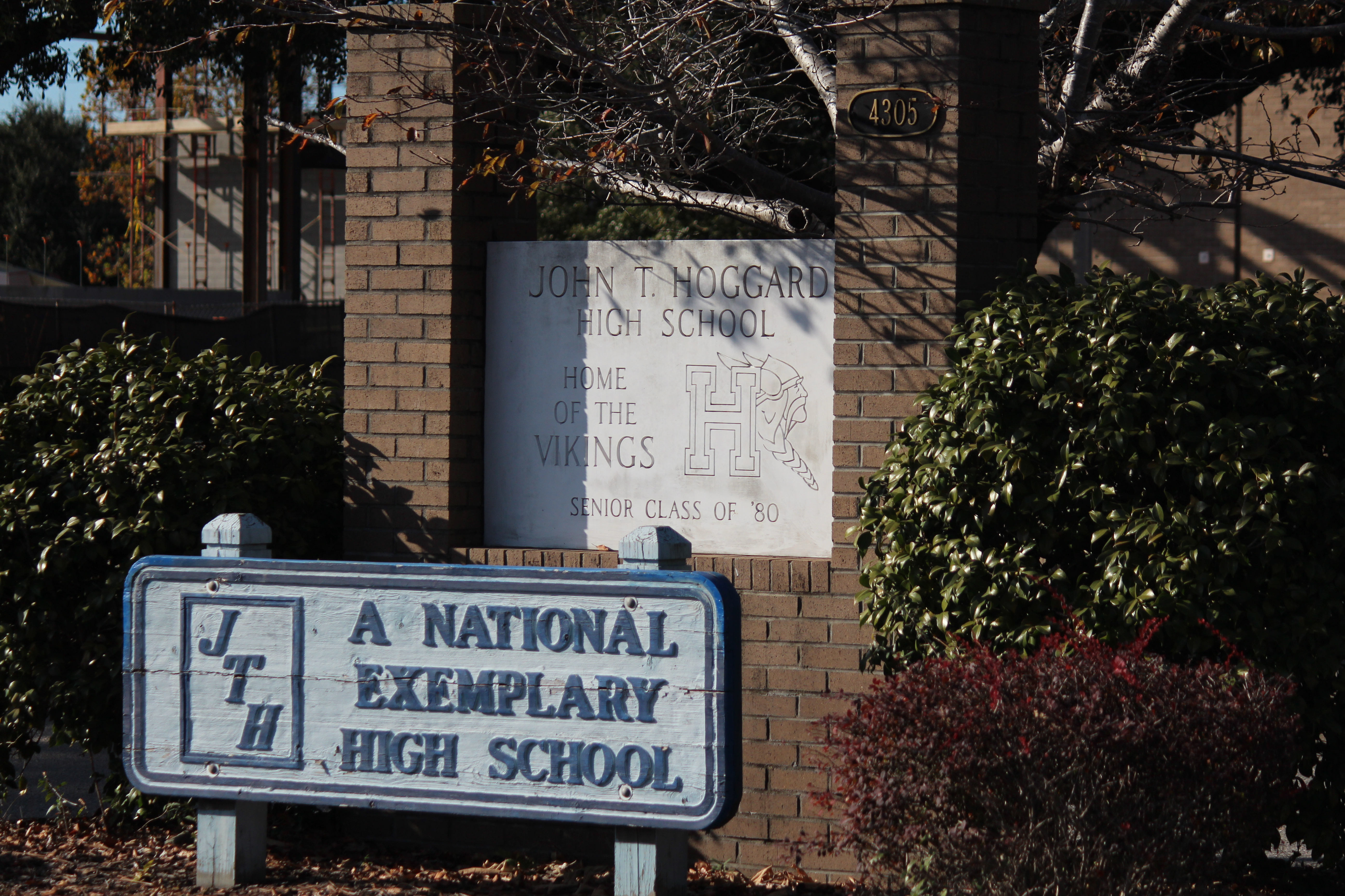 Main sign at John T. Hoggard High School, a public high school in the New Hanover County School System in Wilmington, North Carolina.